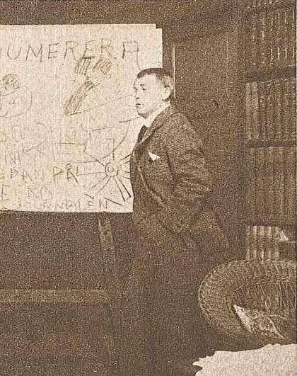 Eigil Schwab (1882-1952), Swedish artist, illustrator and cartoonist.